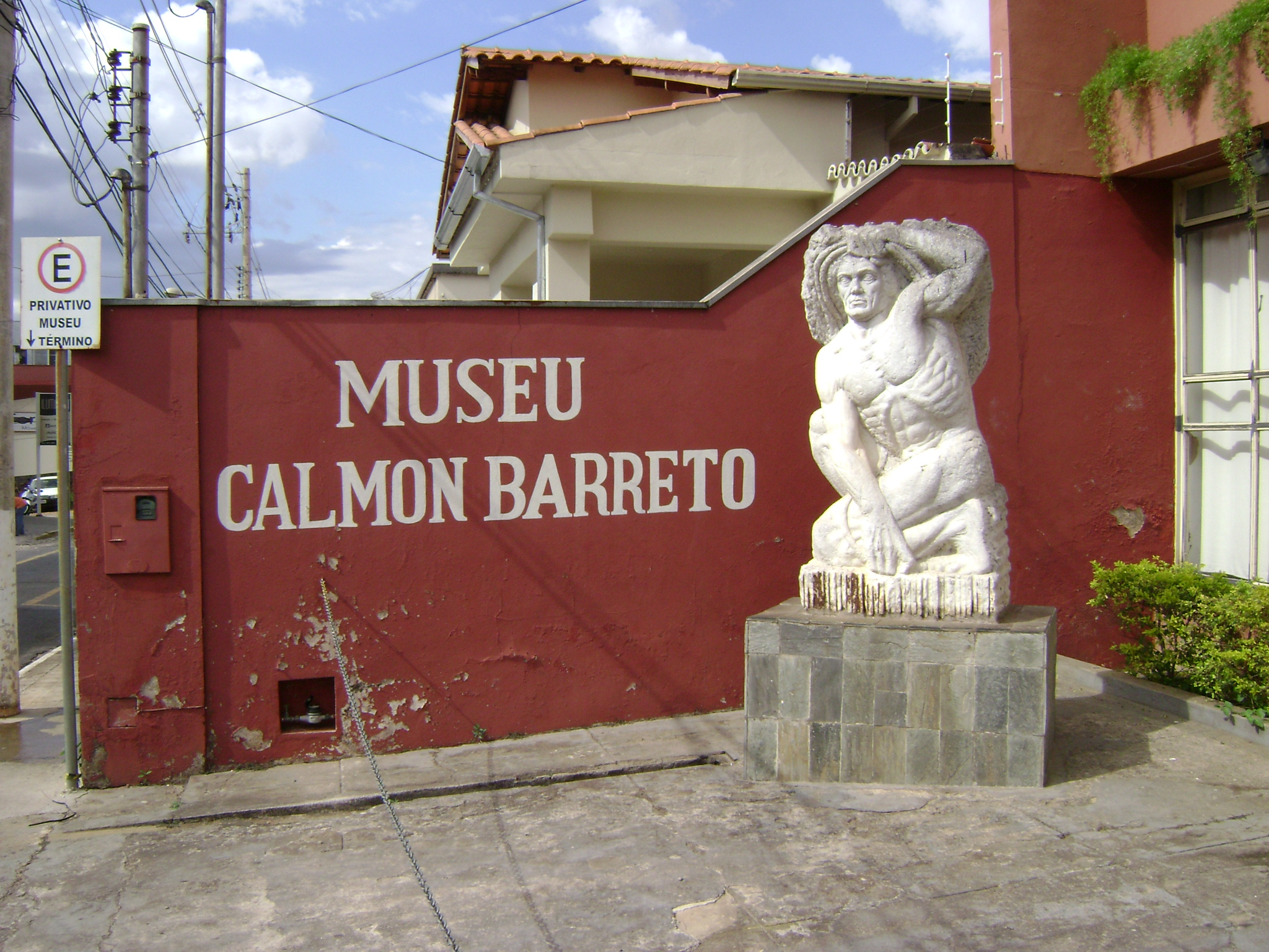 Entrada do Museu Calmon Barreto, em Araxá.